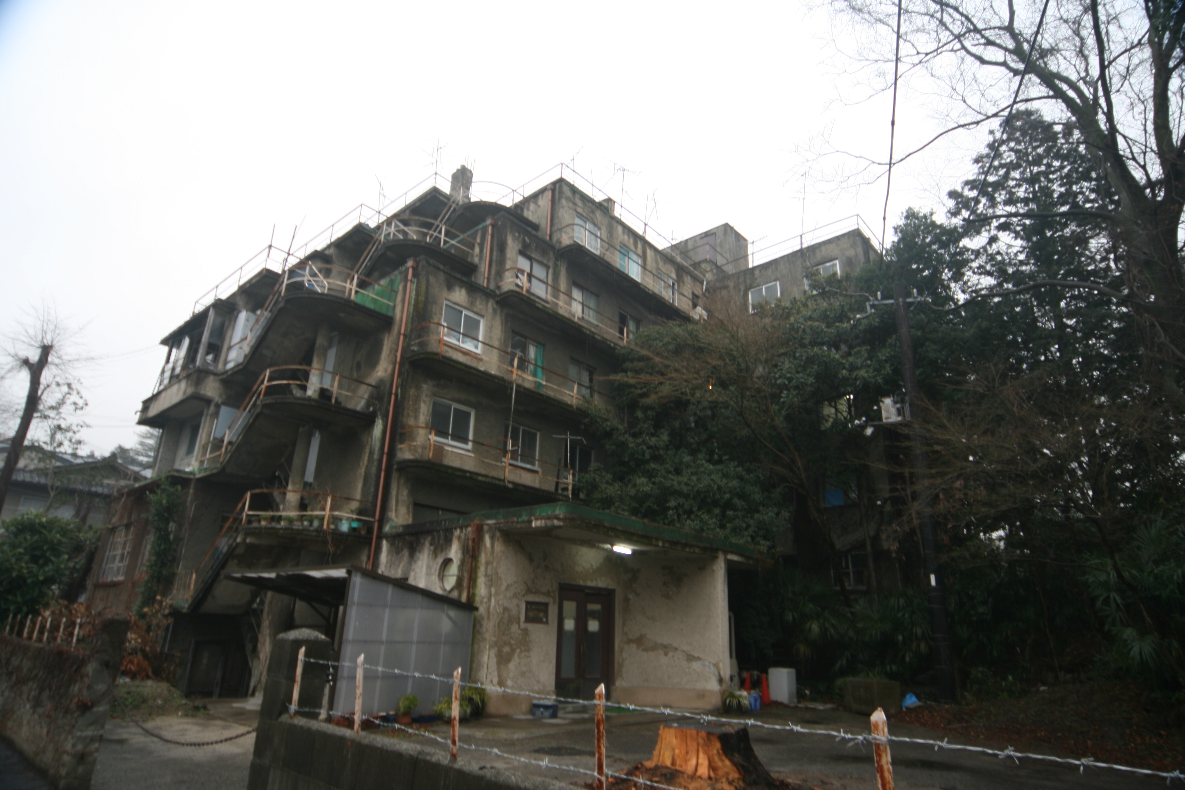 Kokaryu, a dormitory for Chinese student study in Japan, Located in Kyoto.